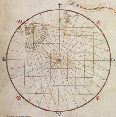 The Tondo e quadro ("Circle and Square"), a visual measurement method of calculating trigonometric values for navigation, from the first page of the ten-sheet atlas by Venetian cartographer Andrea Bianco, dated 1436. Held by the Biblioteca nazionale Marciana, Venice.